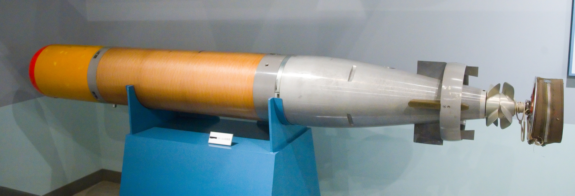 A Mk 44 Torpedo at Kanoya Museum, Japan. This example is probably Japanese built.